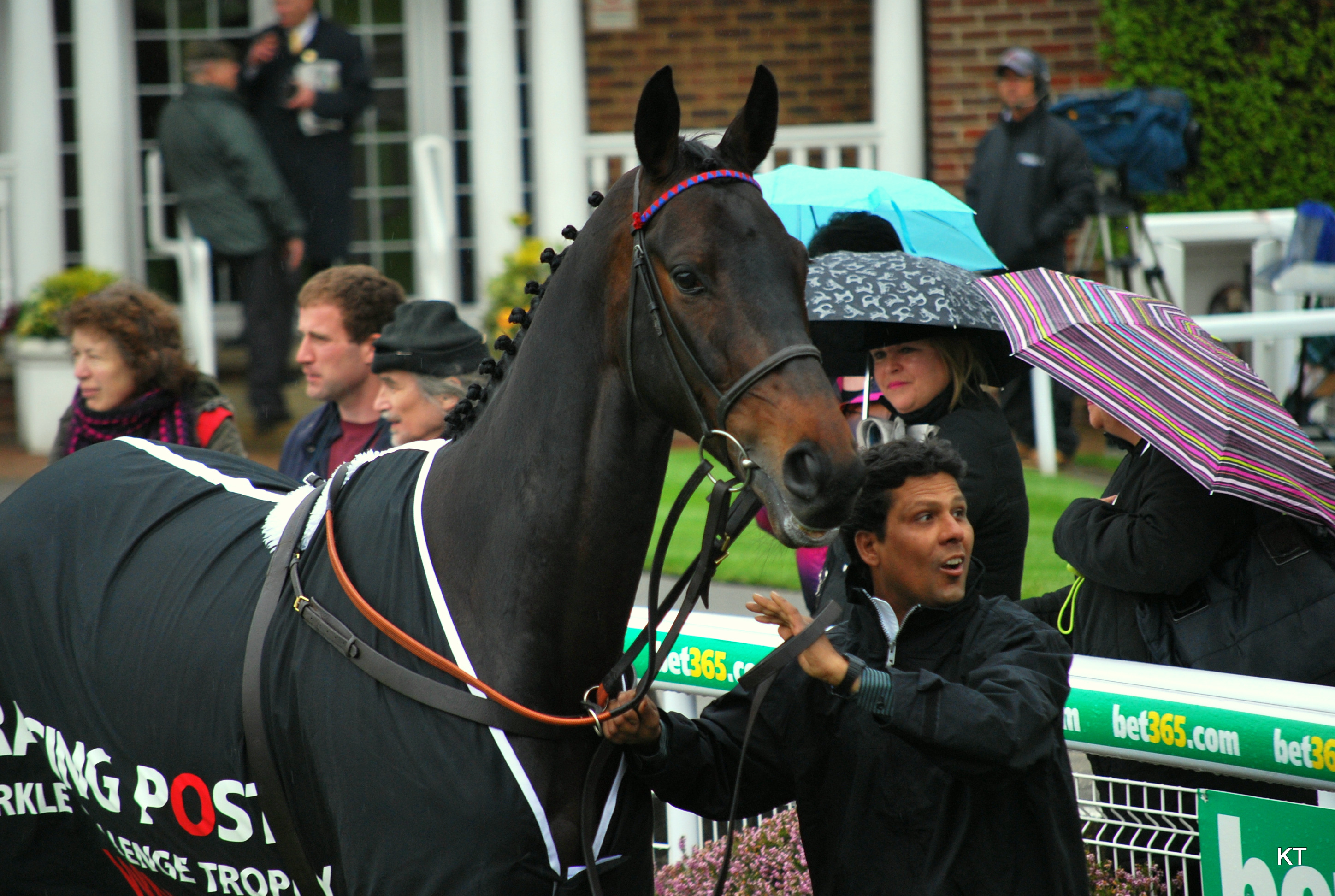 Sprinter Sacre, winner of the 2012 Arkle, in the Champions Parade, Sandown 28th April 2012.